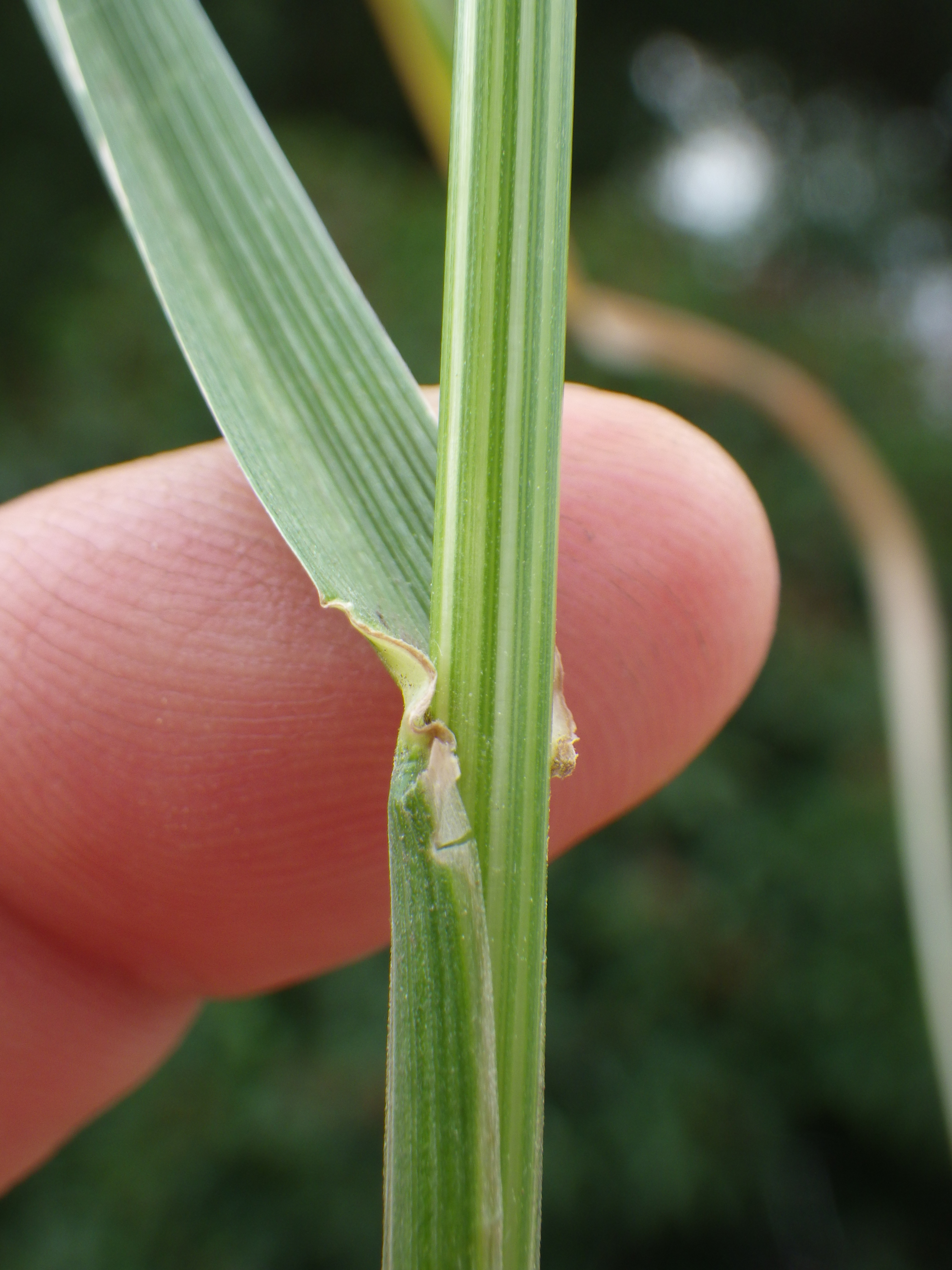 Schedonorus pratensis (meadow fescue) differs from Schedonorus arundinaceus (tall fescue) by prominent auricles that lack a ciliate fringe.